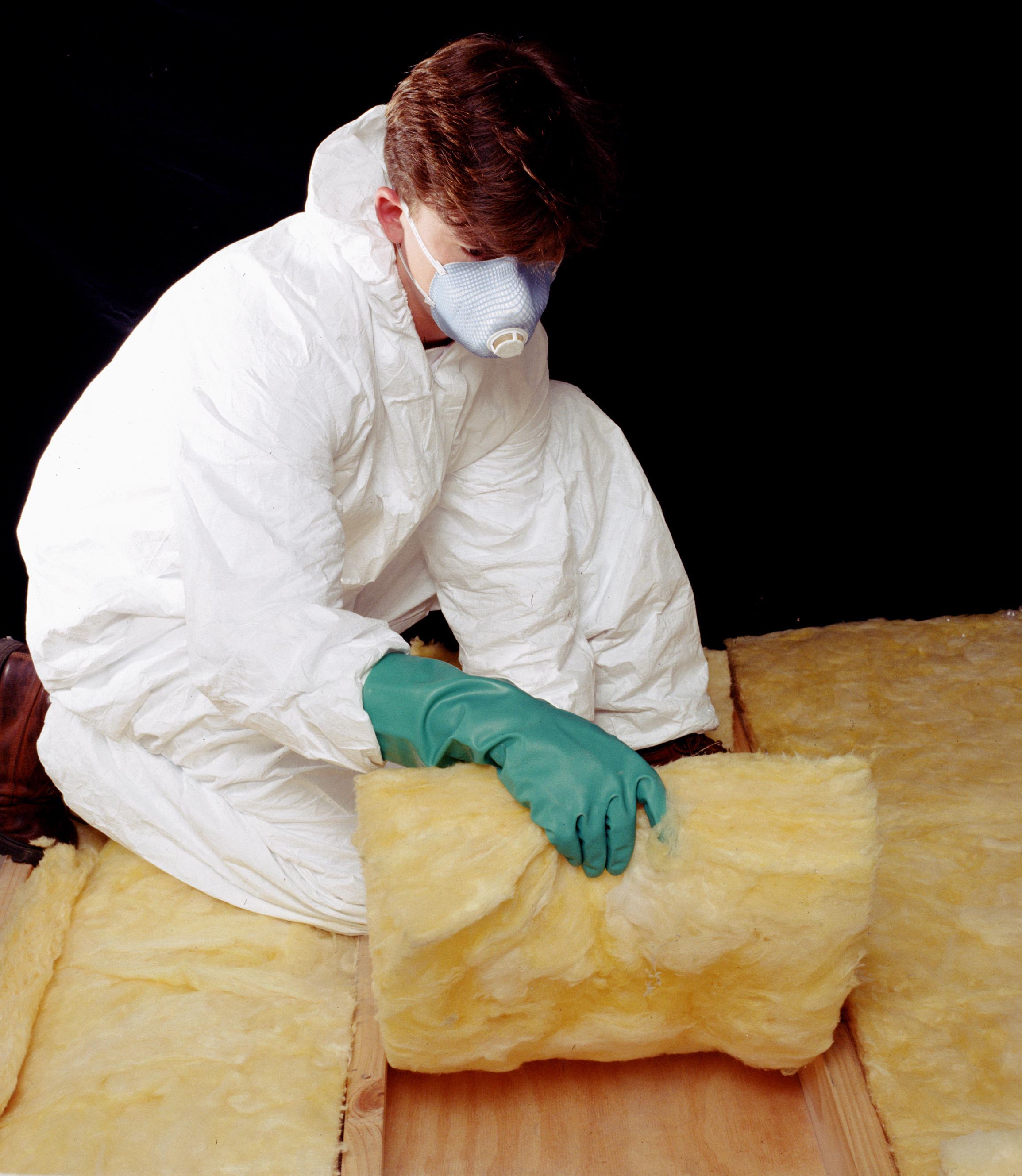 Installation of insulation batts in a roof space. Photo credit: Tracey Nicholls